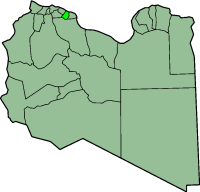 Locator map for the Zlitan District — in the Tripolitania region, of northwest Libya. The city of Zliten is located in Zlitan District.